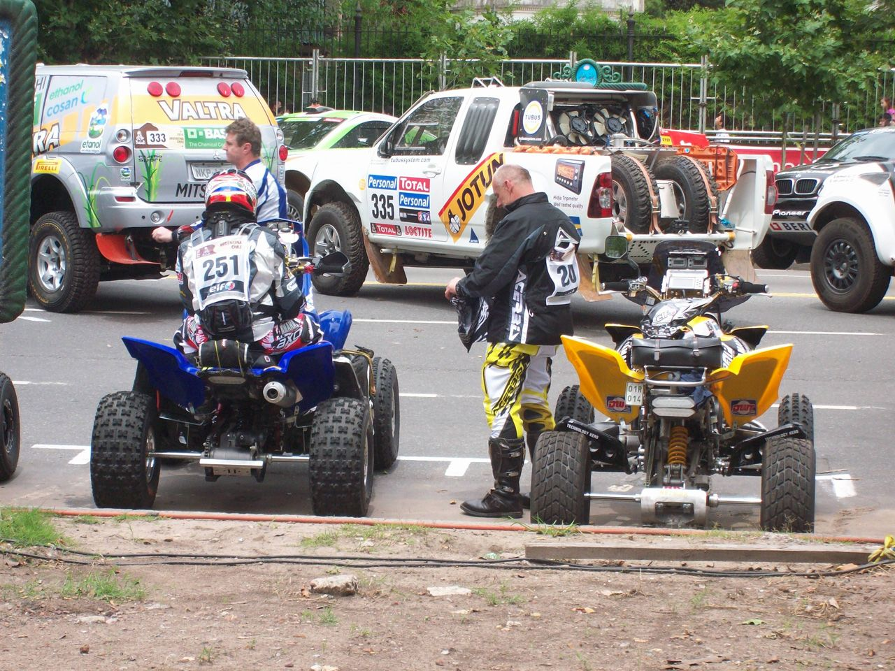 Marcos Patronelli (251) on his quad. Buenos Aires prior to starting. Dakar 2010.